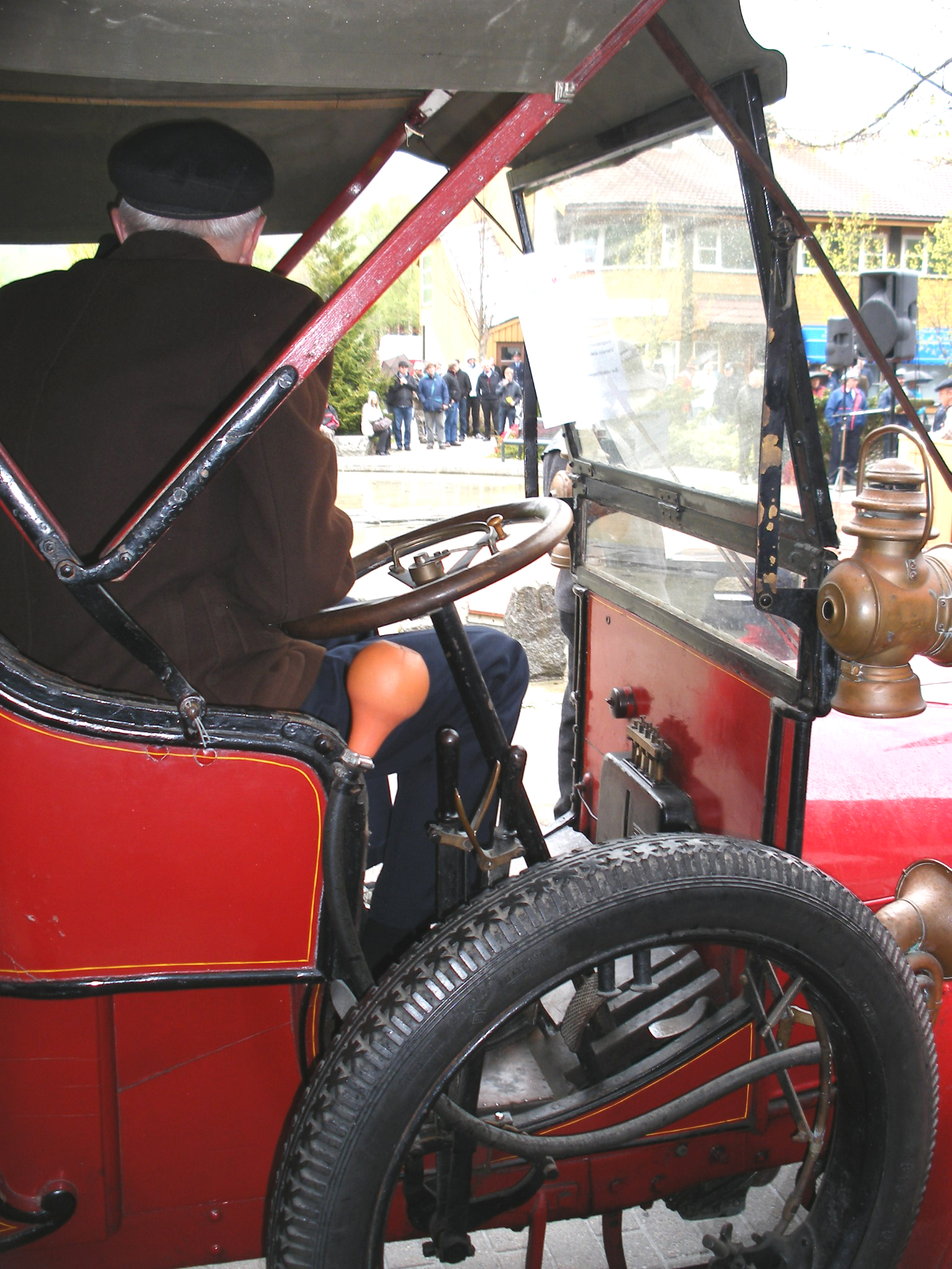 Old bus from Norway. The first norwegian bus (not the oldest). UNIC (France) 1907. Chassis build in Kristiania, Norway (= Oslo).